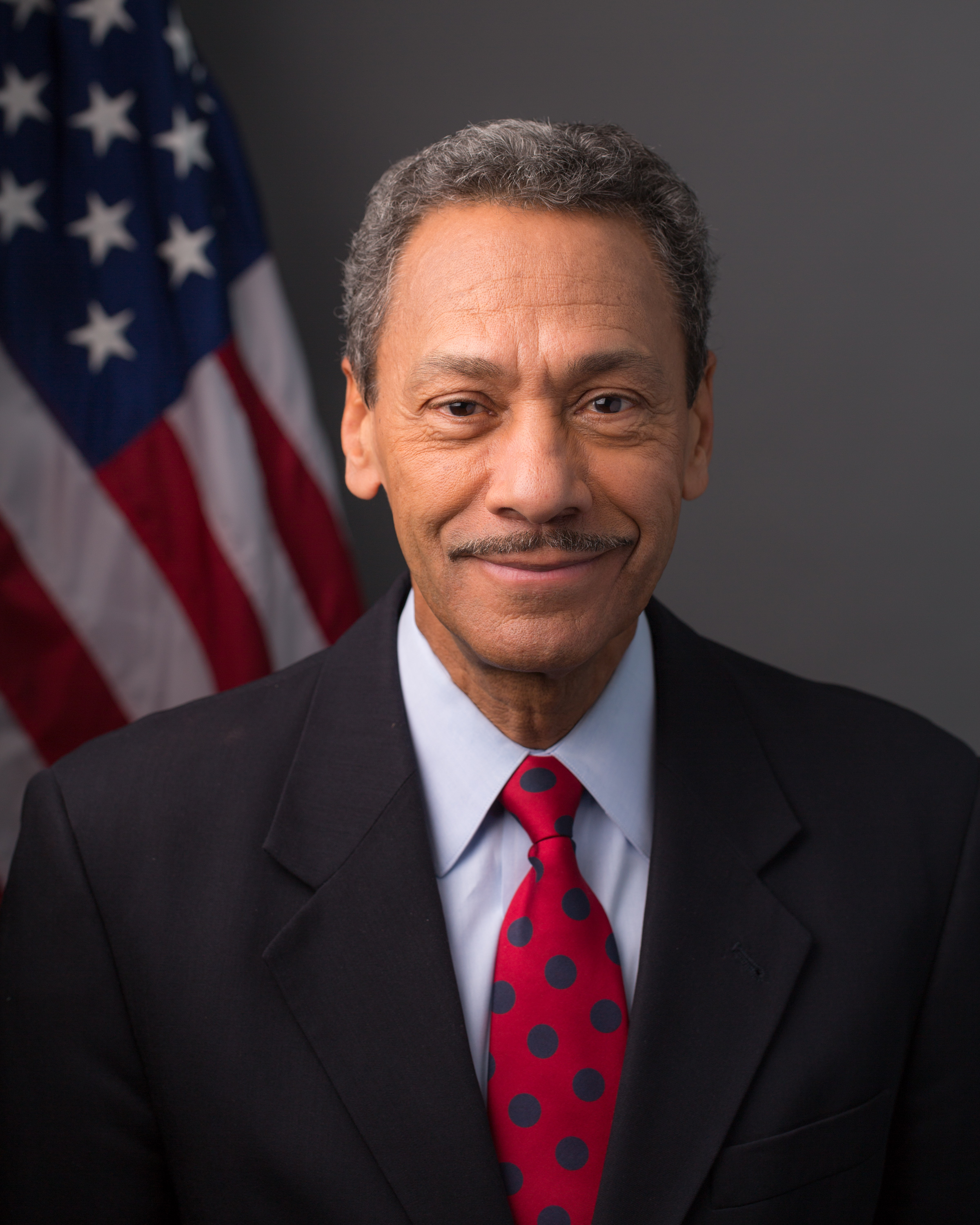 Mel Watt official photo as Director of the Federal Housing Financial Agency